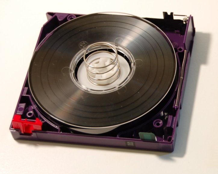 LTO 2 cartridge without the top shell Note: The LTO-CM chip is not oriented correctly. See the LTO-CM reference PDF in the LTO article for the correct orientation.